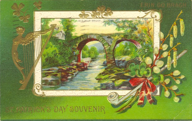 Postcard: "St. Patrick's Day Souvenir" postmarked 1912 in the United States.On postcard: "OLD WEIR BRIDGE" Description: "1912 POSTCARD ST. PATRICK'S DAY SOUVENIR; POSTALLY USED and CANCELLED MARCH 1912"Pictured: The painting depicted is of the "Old Weir Bridge" located Dinis Cottage, in Killarney National Park, Ireland.